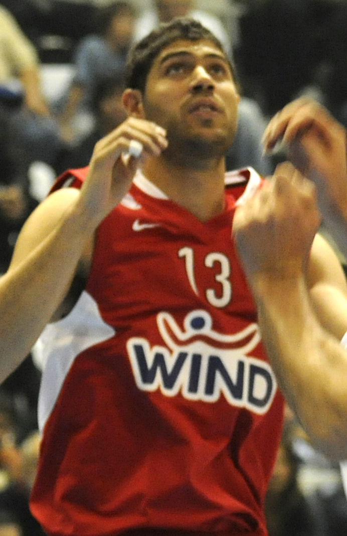 _DSC6981